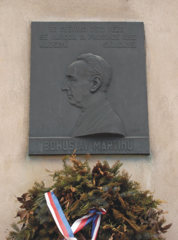 commemorative plaque of Bohuslav Martinů in Polička (Czech Republic)(created by J. Kadlec)